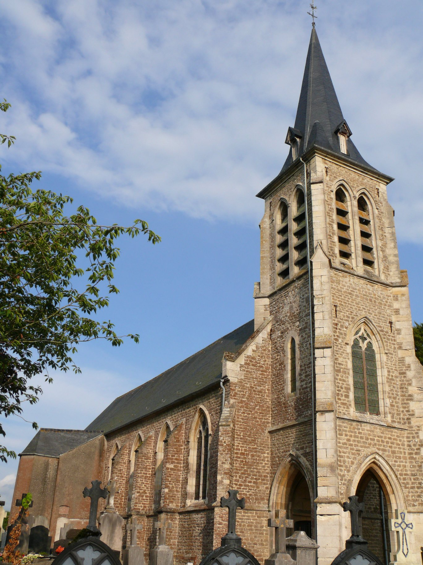 Saint-Martin's church of Condette (Pas-de-Calais, France).